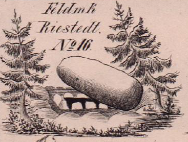 Megalithic tomb near Riestedt